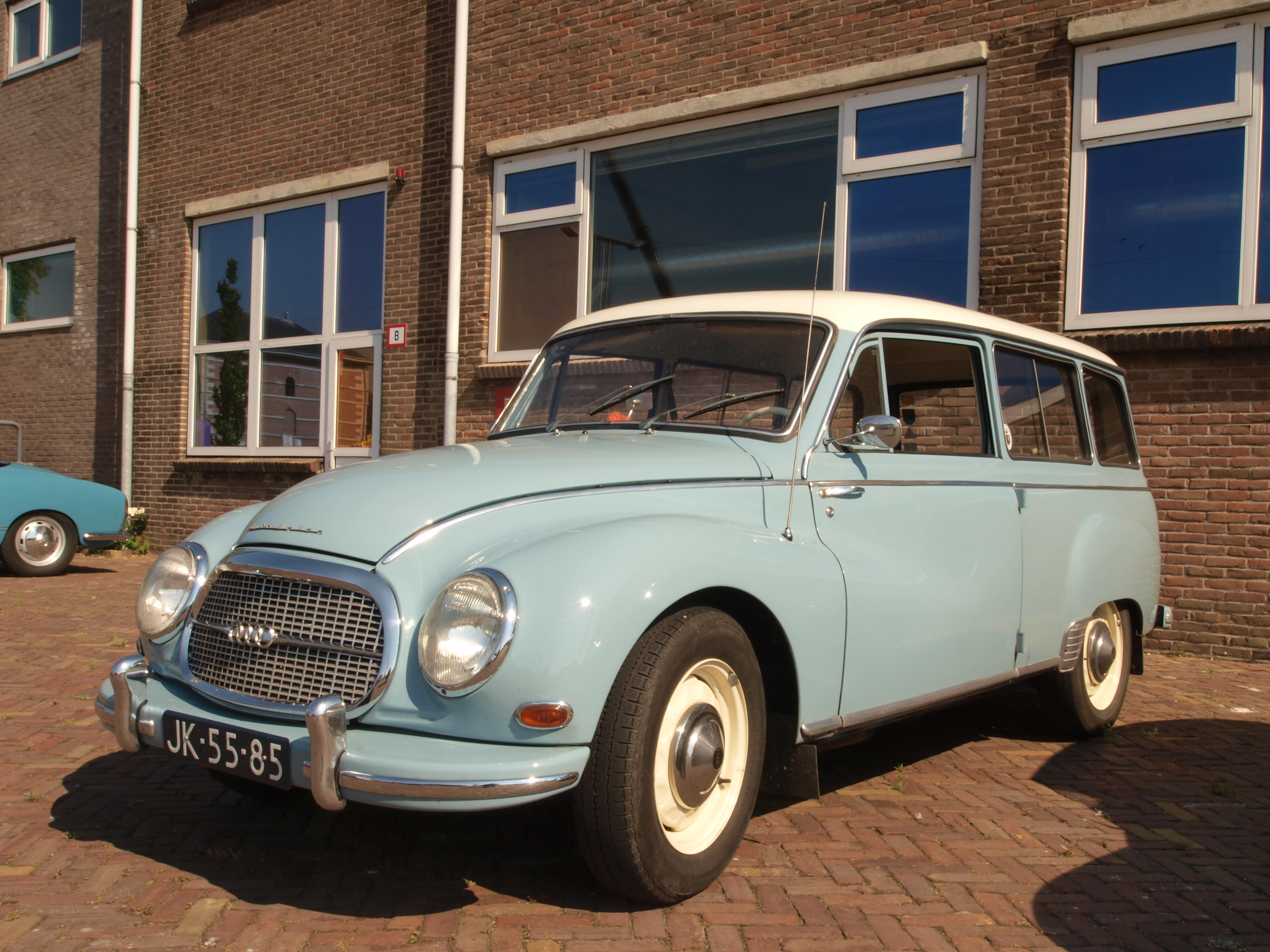 Photographed at Den Helder, The Netherlands. OLYMPUS DIGITAL CAMERA